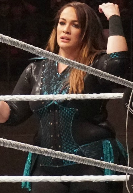 Nia Jax during a WWE live event in May 12, 2017.